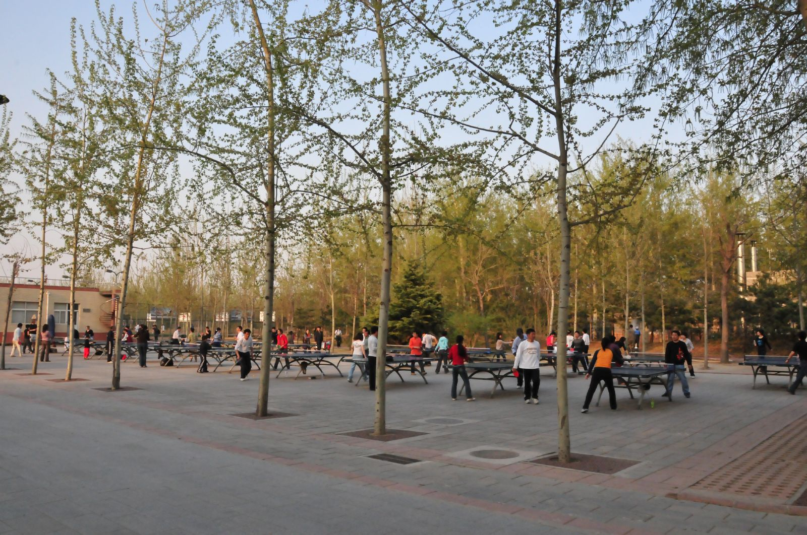 Ping Pong at the Chaoyang Park in Beijing